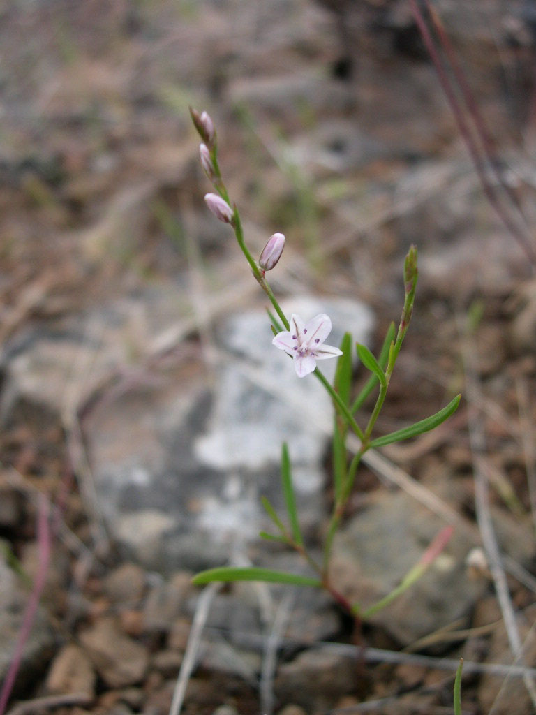 Polygonum douglasii Greene ssp. majus (syn: Polygonum majus) in southwest Idaho